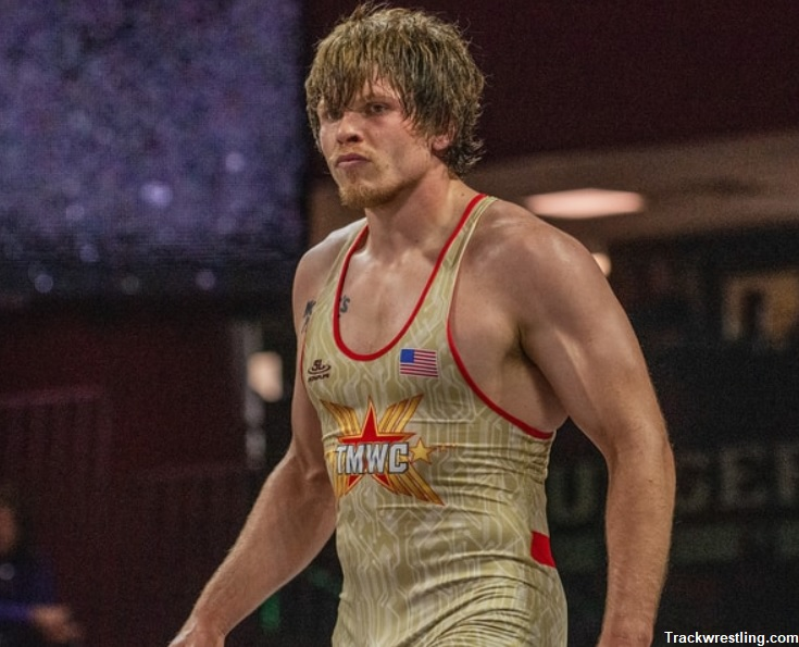 IRTC WRESTLING